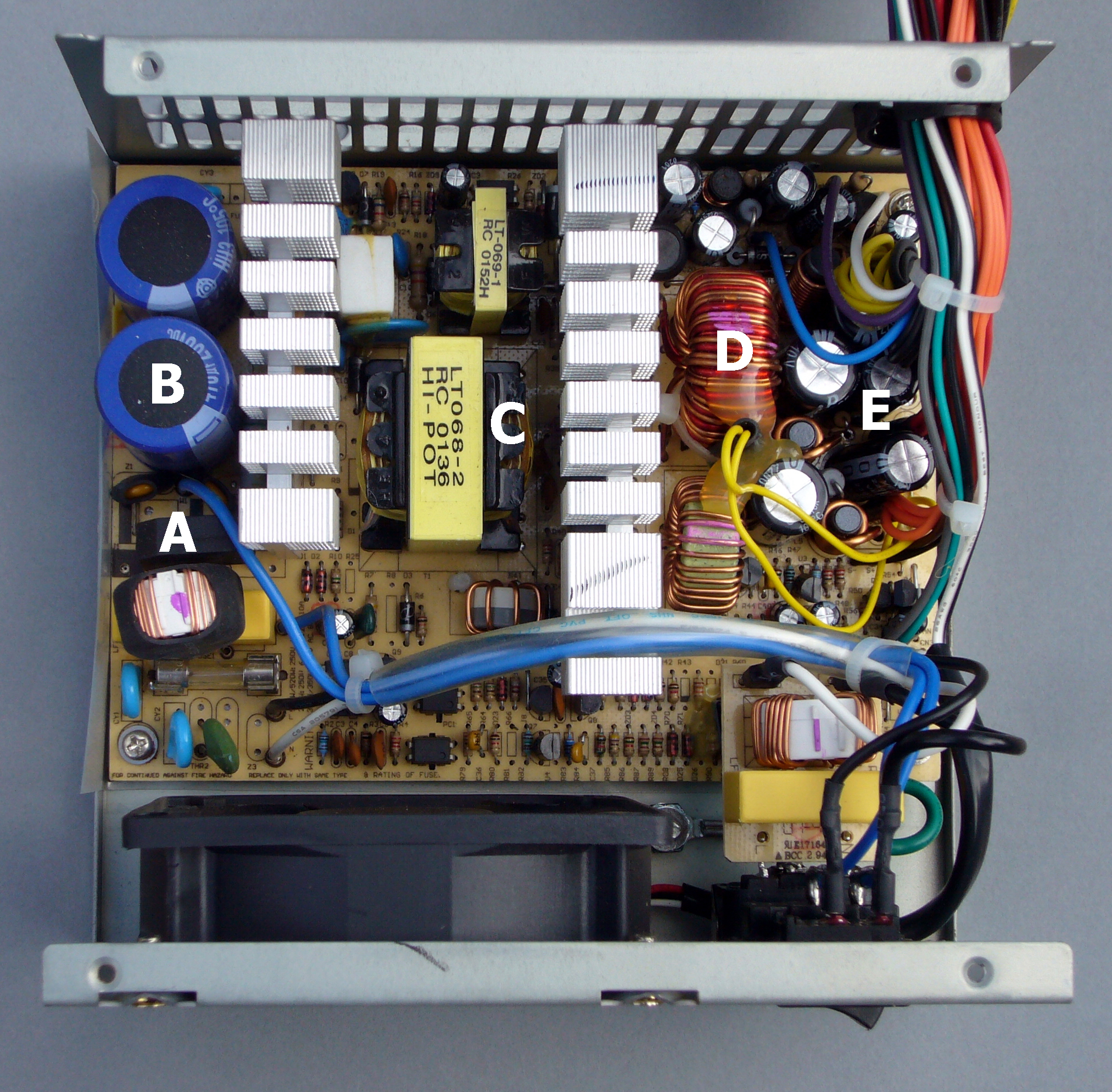 ATX power supply interior Legend: A - bridge rectifier B - input filter capacitors between B and C - Heatsink of high-voltage transistors C - transformer between C and D - Heatsink of low-voltage, high-current rectifiers D - output filter coil E - output filter capacitors